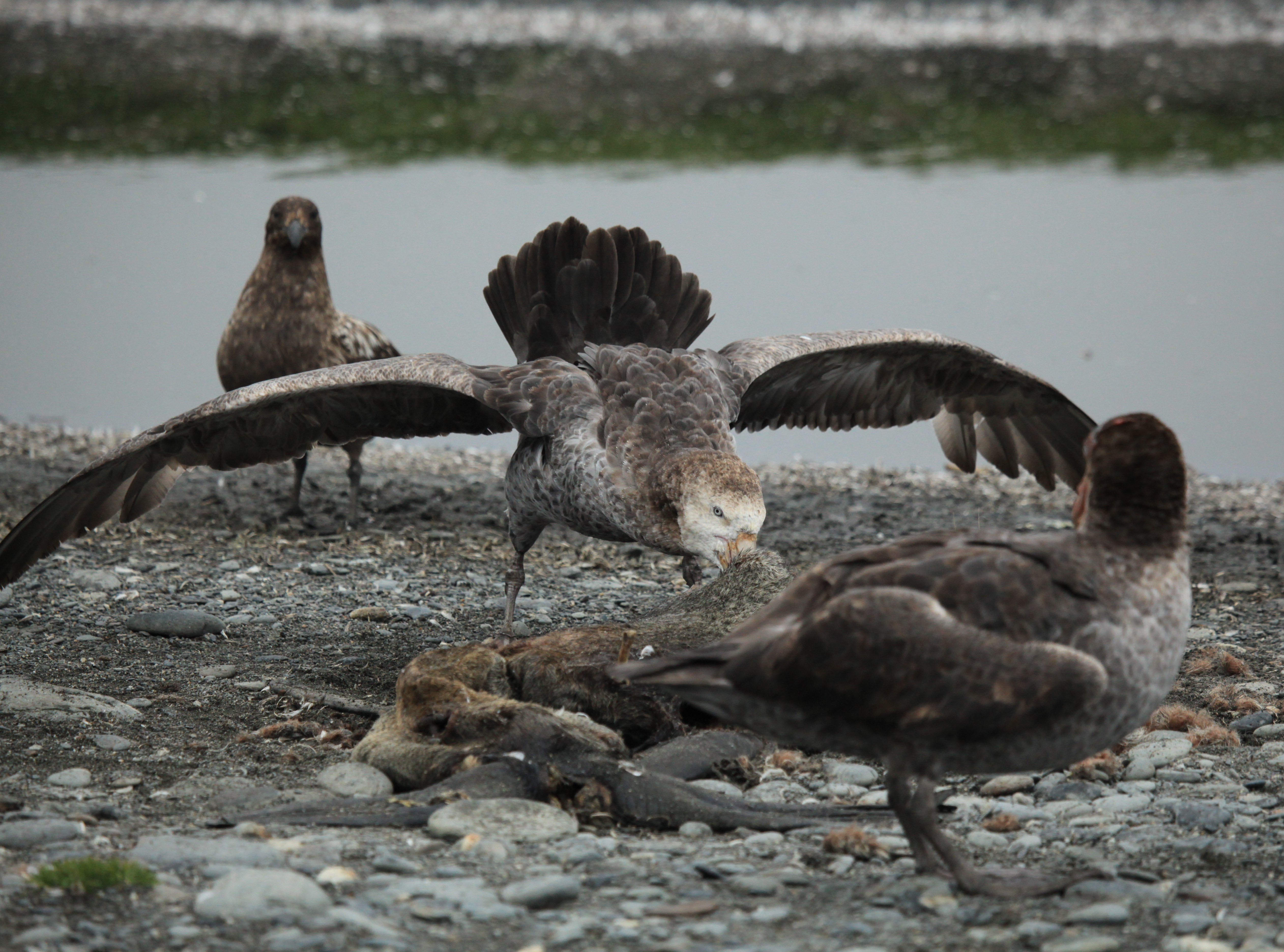 A Brown Skua and another Northern Giant Petrel look on. At Salisbury Plain, South Georgia.